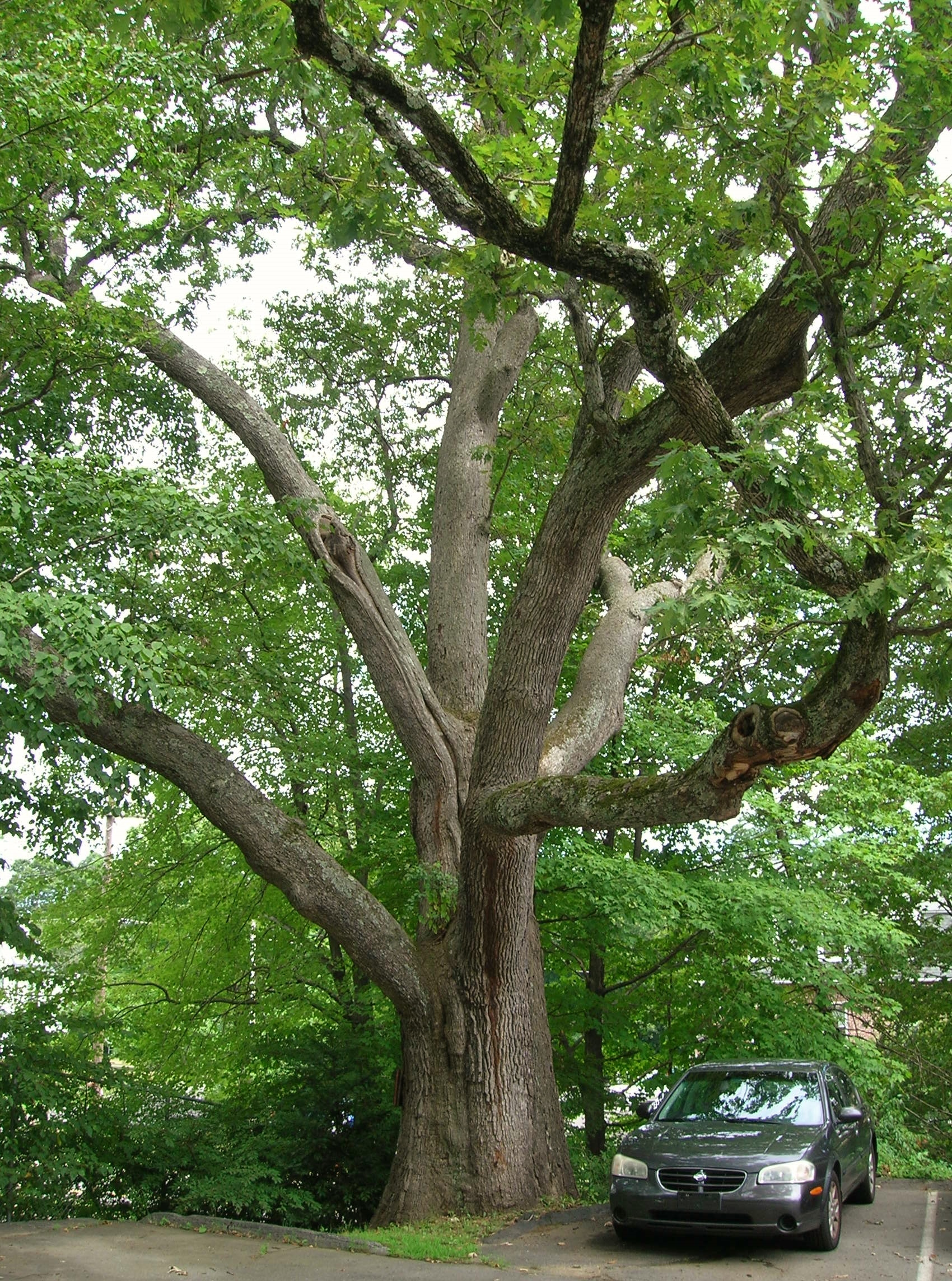 Photograph of The 1812 Oak, a white oak tree located in Watertown, Connecticut. Photo was taken 8/4/2011.